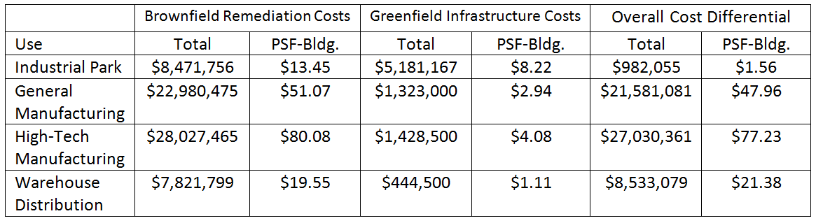 The cost differential between Brownfield and Greenfield development in four case studies